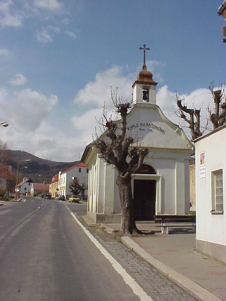 Saint Anthony chapel in Přestanov, Ústí nad Labem District, Czech Republic.